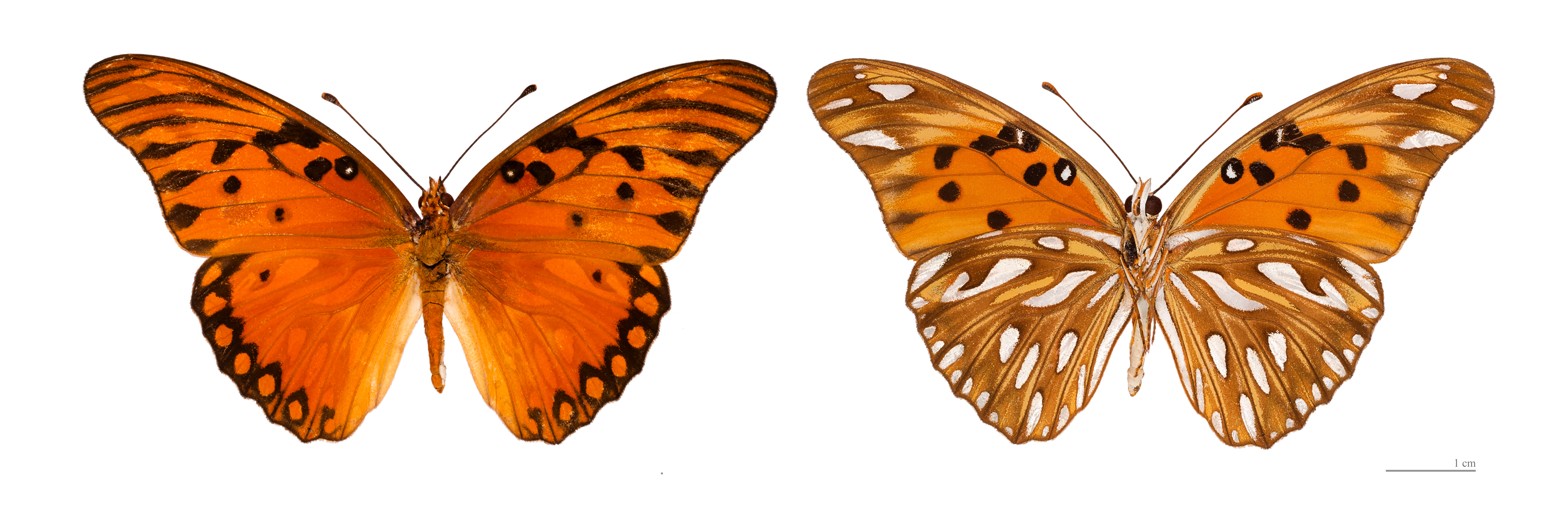 ♂ - Two views of same specimen Locality : Vidal (GF), Cayenne, French Guiana.